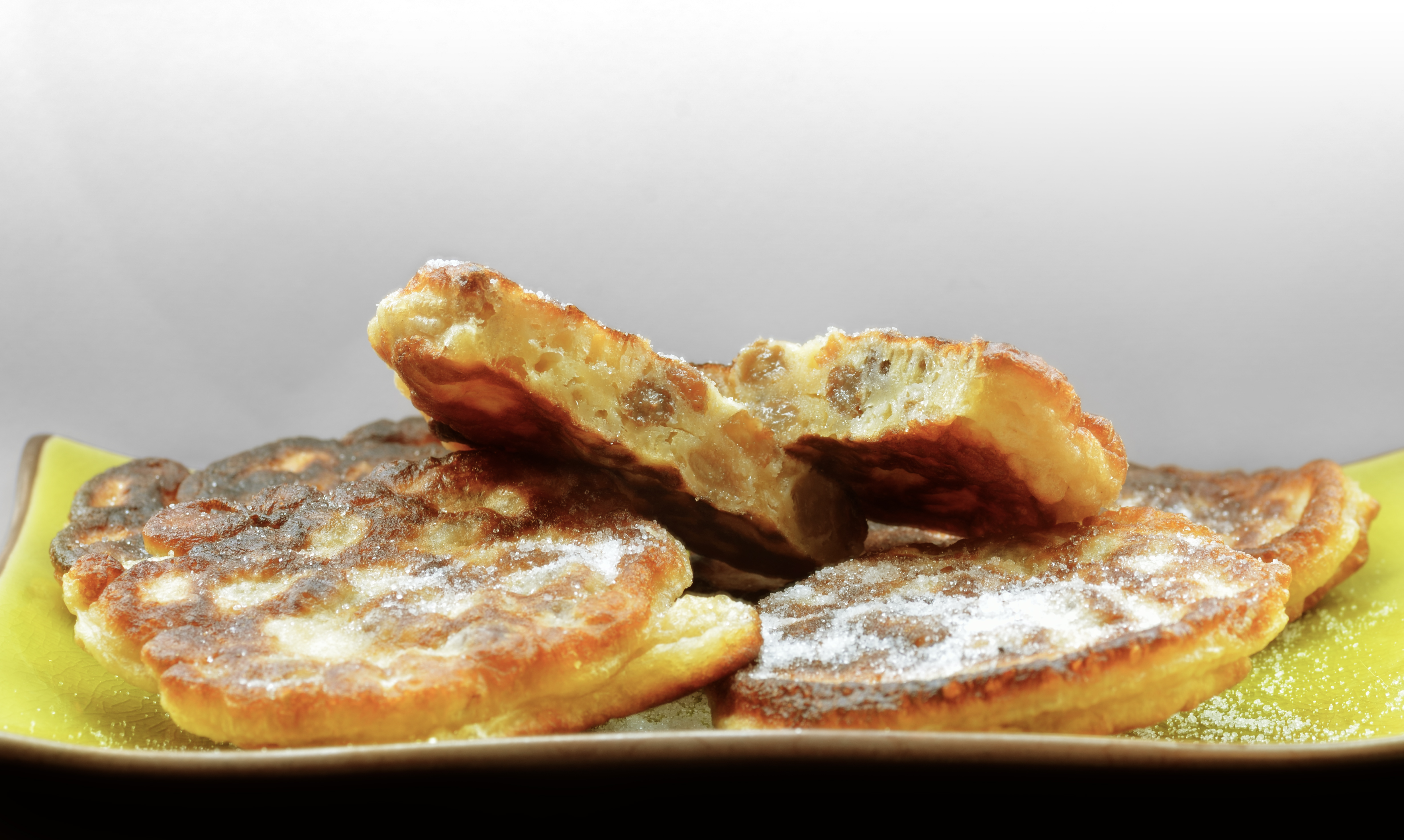 Struwen, a sort of German pancakes